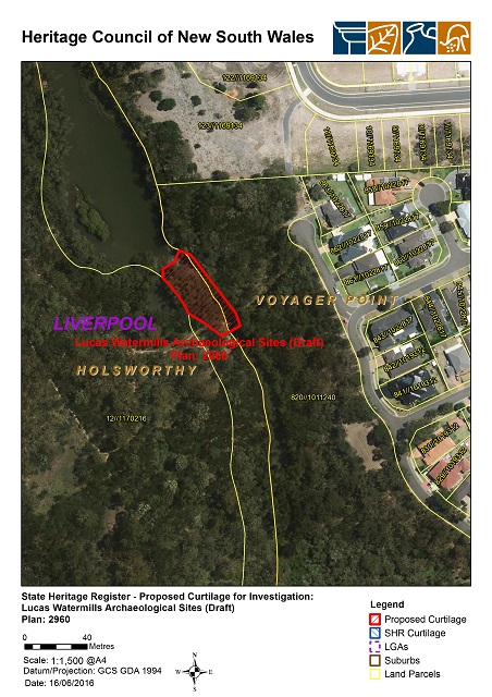 Lucas Watermills Archaeological Sites: SHR Plan - Brisbane Mill